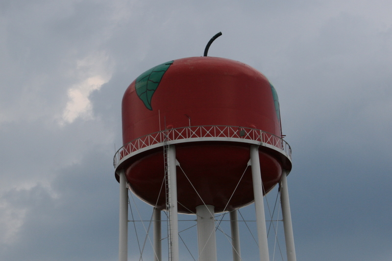 Jackson, Ohio apple water tower, July 2007, Vbofficial 00:35, 16 July 2007 (UTC)